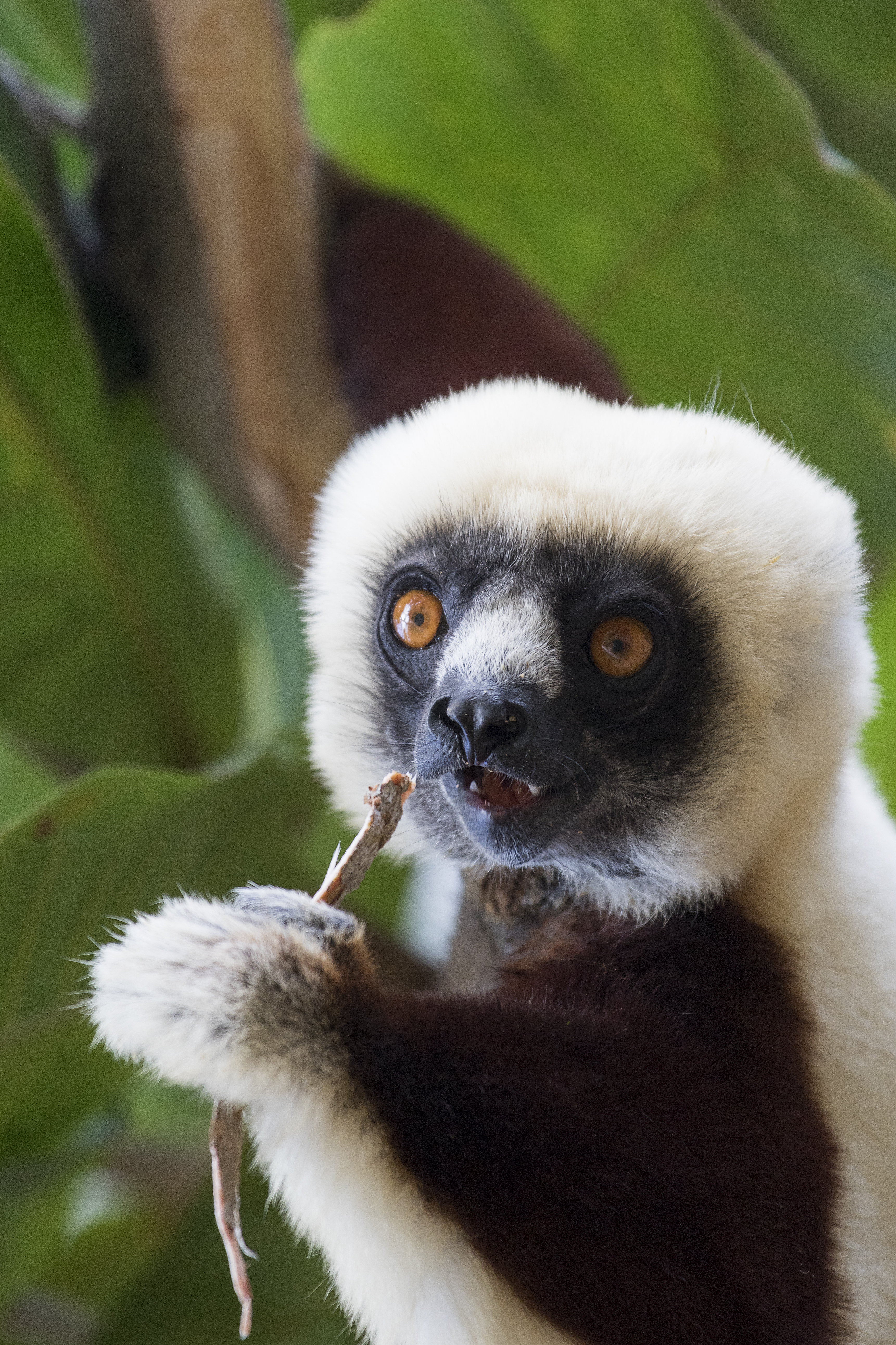 A sifaka eating in the forest